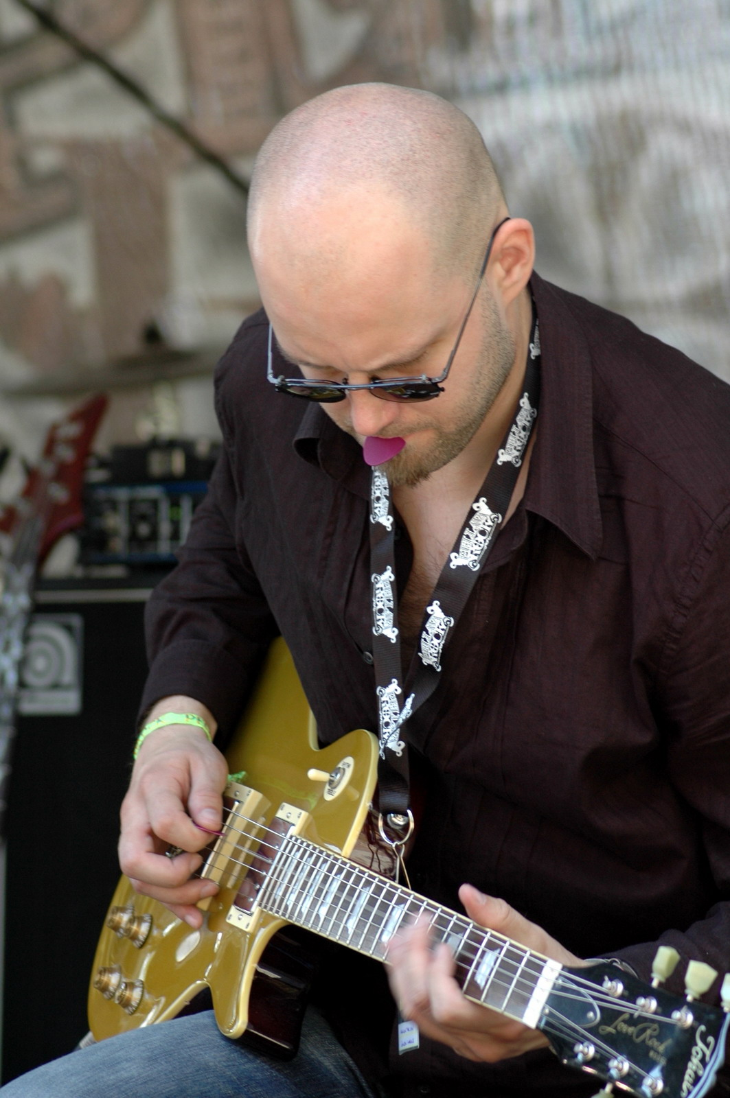 Markus Jämsen from Swallow the Sun, 2006